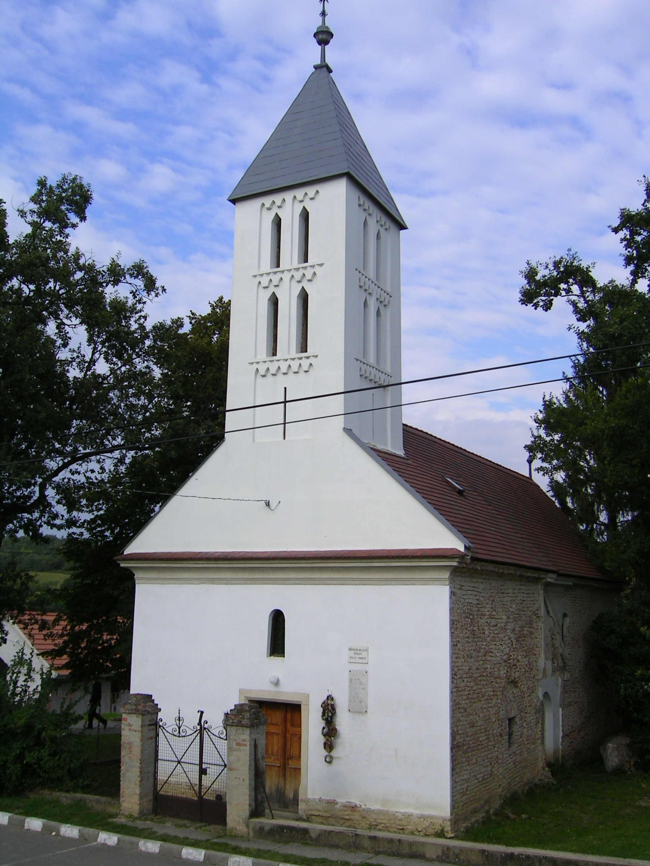 Roman catholic church in Peterd, Hungary